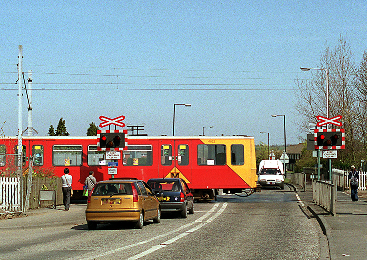 Kingston Park station on the Tyne and Wear Metro. The view north along Brunton Lane, with road traffic stopped at the lights for the level crossing. Metrocar No. 4032 forms the rear of a westbound train which has just left Platform 2 (to the right).